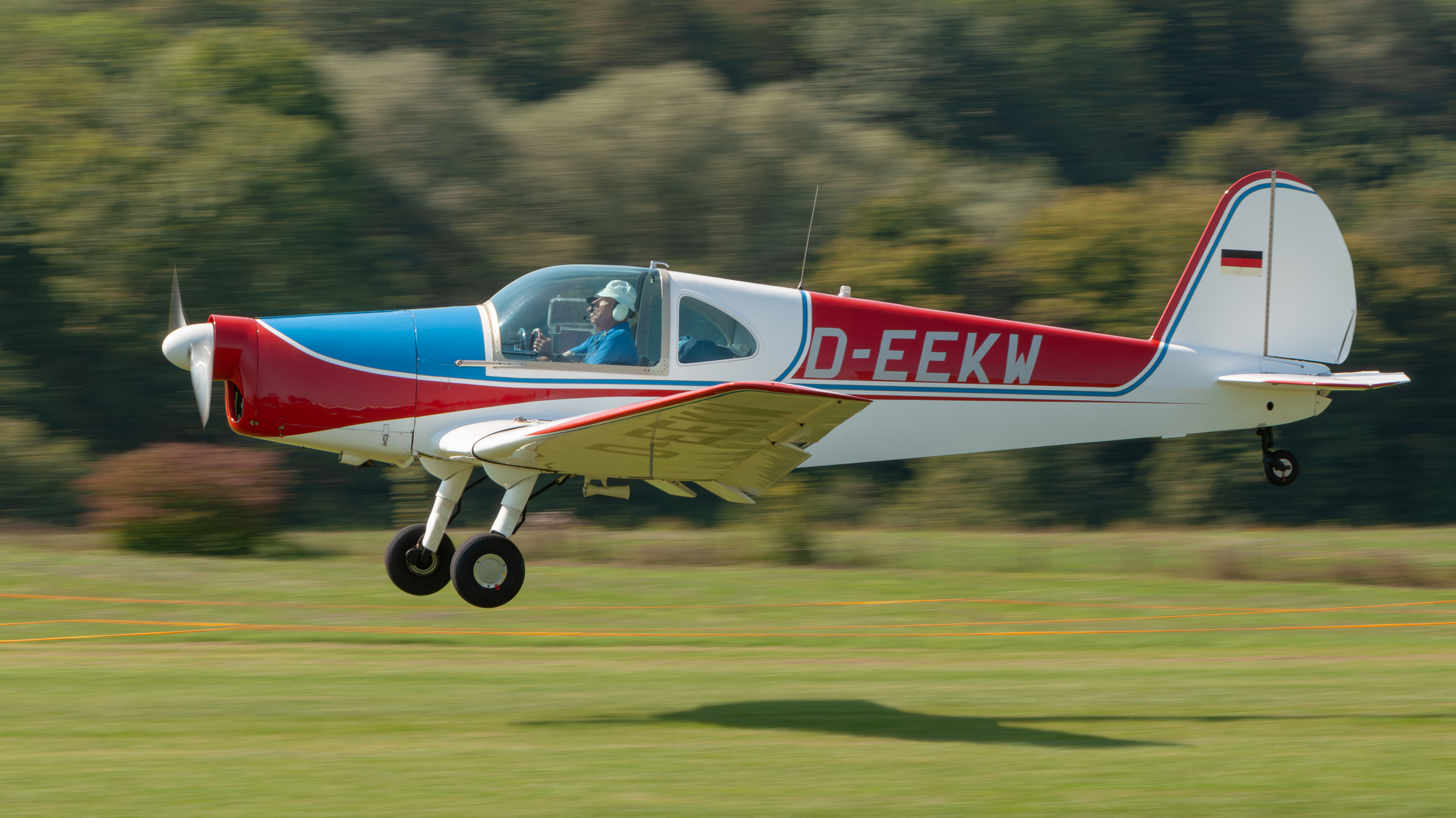 Orlikan Sokol M1C (reg. D-EEKW, cn 211, built in 1948).